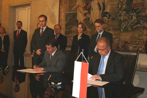 Acting Under Secretary for Arms Control and International Security John Rood (left) and Polish Under-secretary of State Andrzej Kremer (d. 2010) initial a missile defense agreement at the Polish Ministry of Foreign Affairs on August 14, 2008